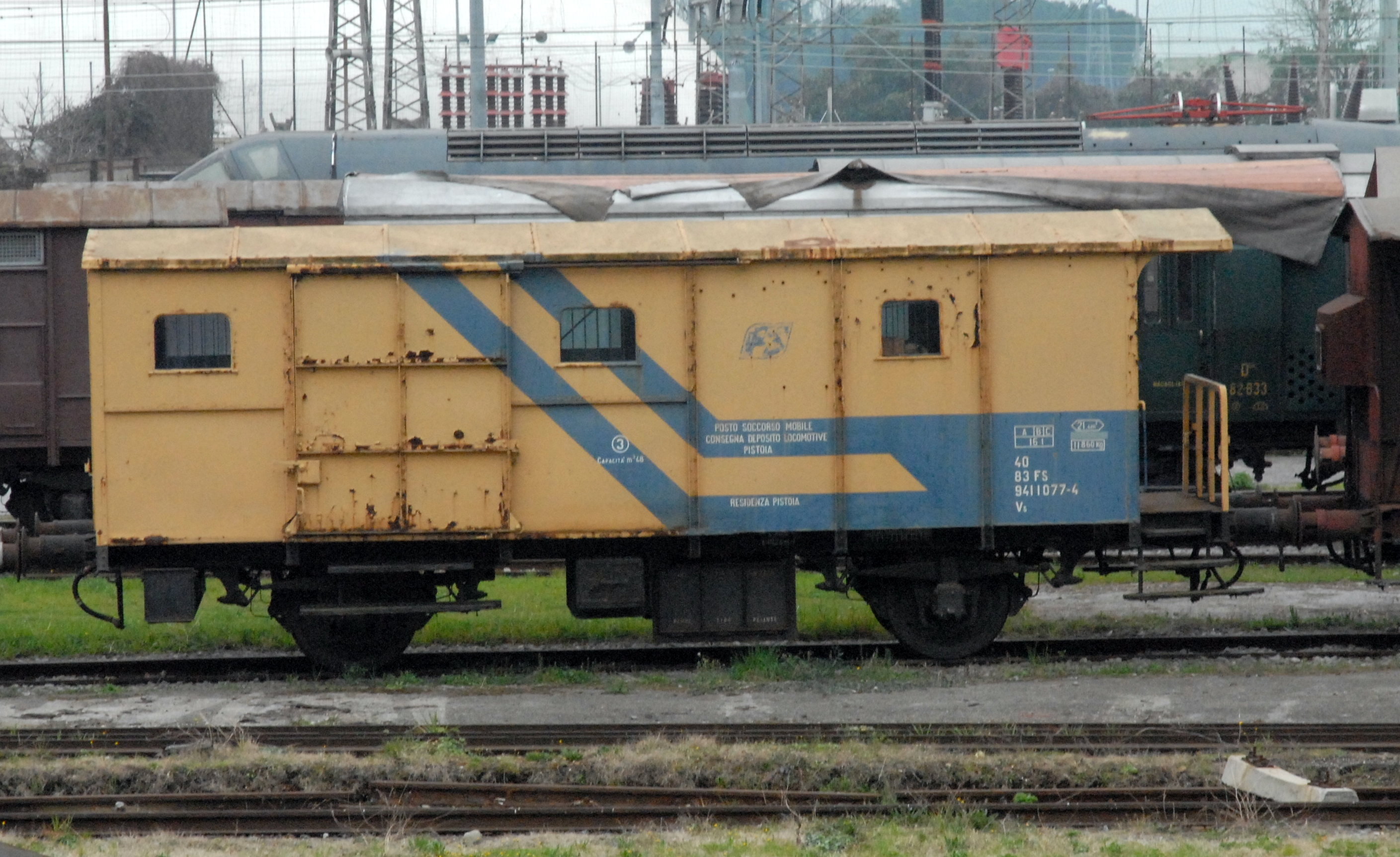 Photos from the FS railway deposit in Pistoia, Italy. Subsidiary service wagon of the Carro soccorso (railway rescue train) of the italian FS